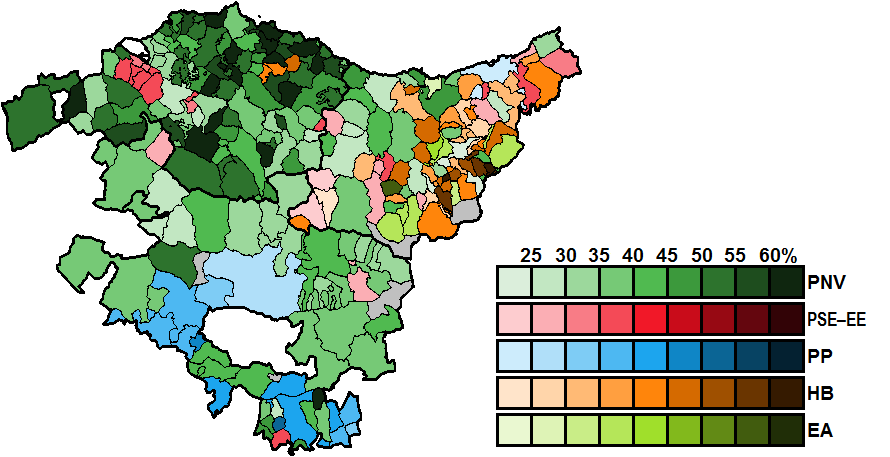 Most-voted party in Basque Country municipalities, showing vote share obtained, in the Spanish general election, 1996.